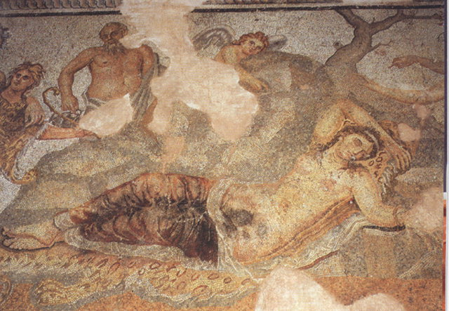 Dionysos and Ariadne in Archaeological Museum of Thessaloniki